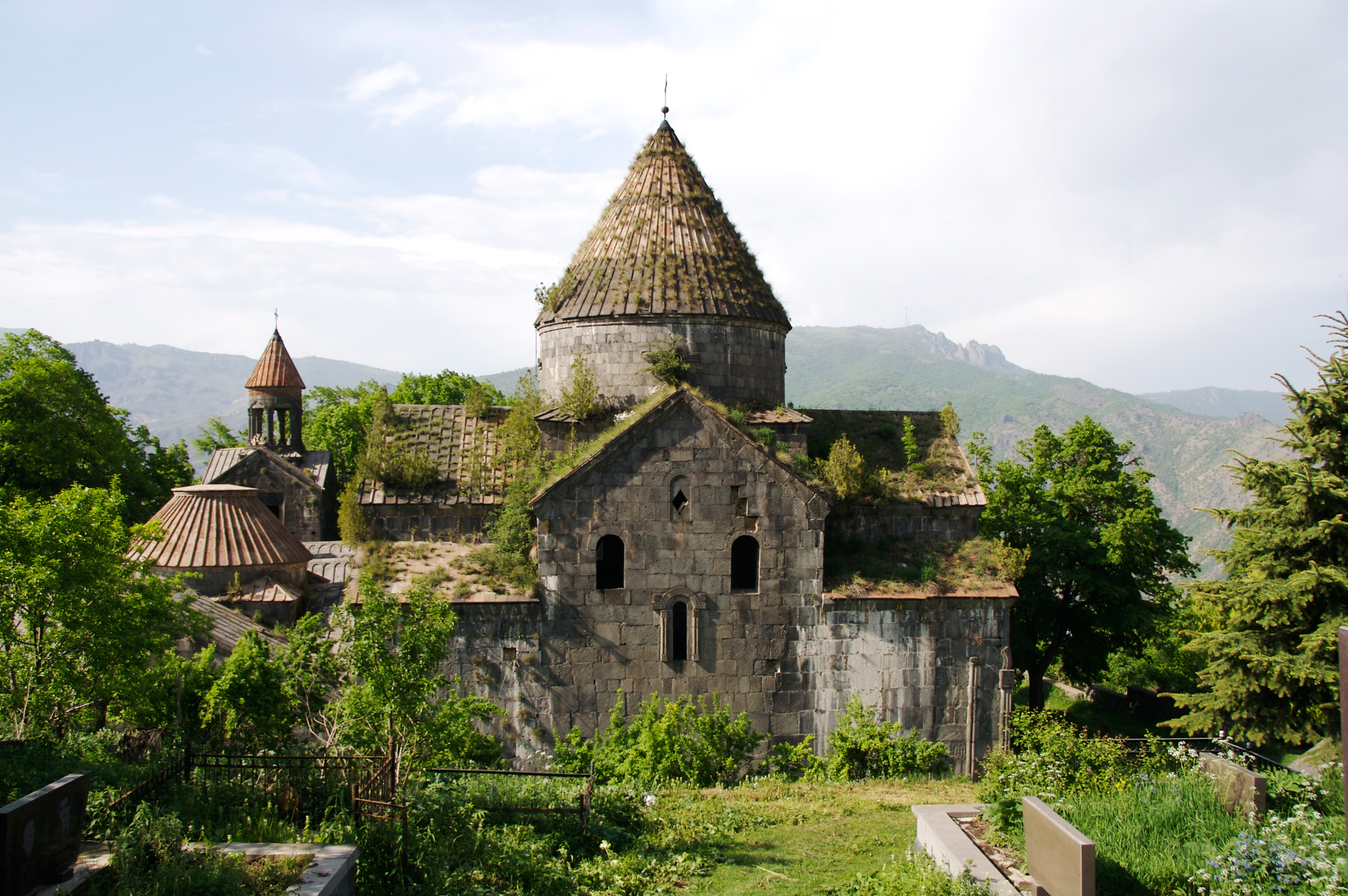 View of the Sanahin Monestery, Armenia